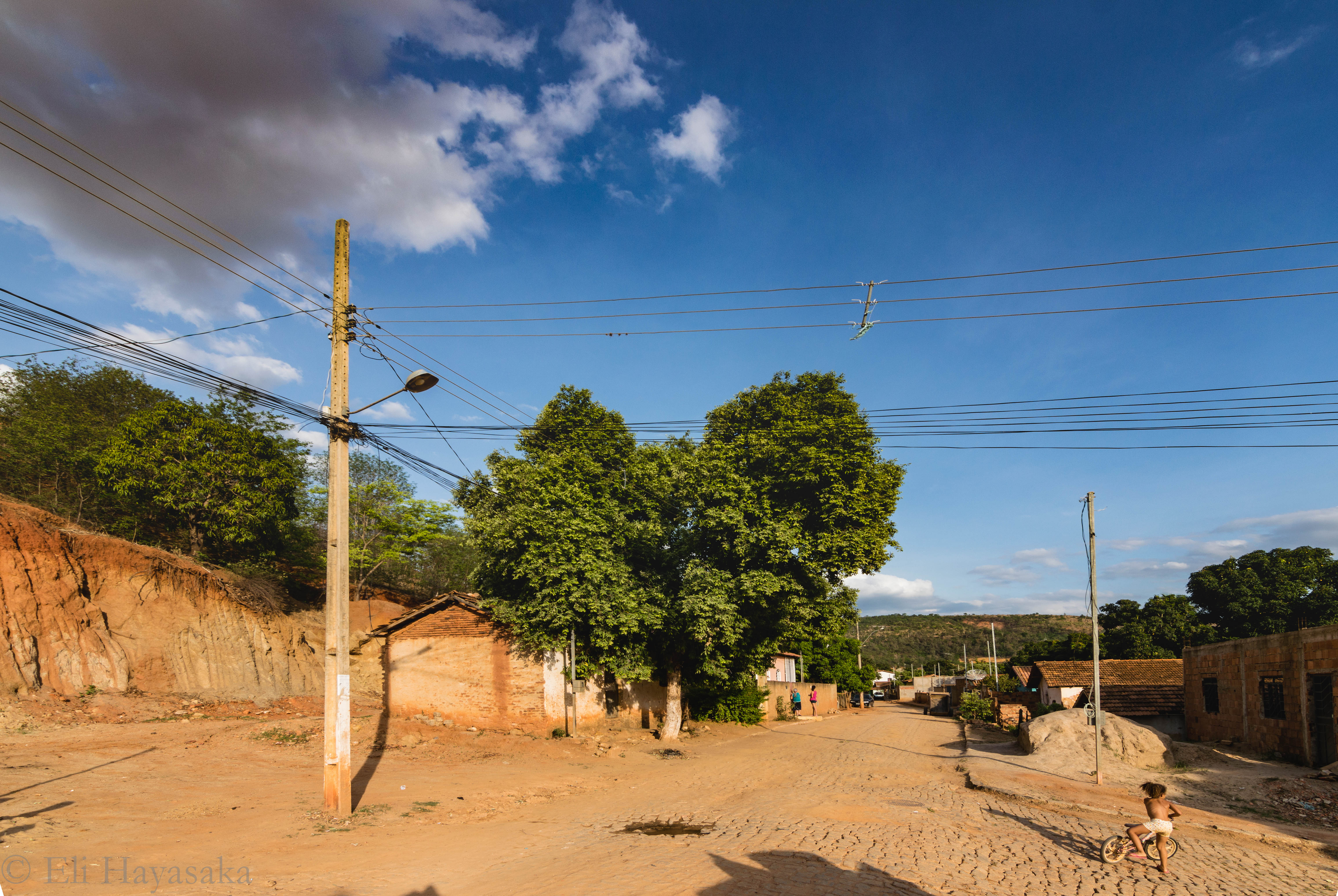 A street in Galileia, Minas Gerais, Brazil.